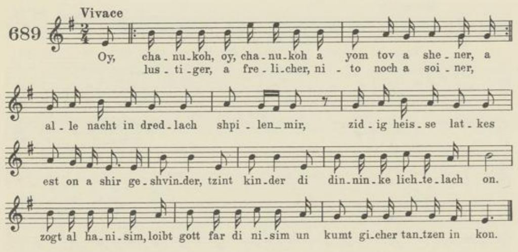 Mordkhe (Mark) Rivesman's Hanukkah song "Khaneke, oy Khaneke"